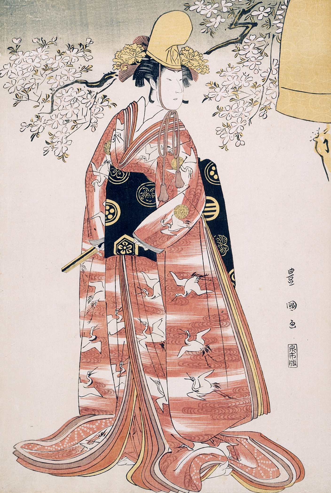 Japan, 1796 Prints; woodcuts Color woodblock print Image: 15 3/8 x 10 5/16 in. (39.1 x 26.2 cm); Paper: 15 5/8 x 10 5/16 in. (39.7 x 26.2 cm) Gift of Mr. and Mrs. Nathan V. Hammer (54.50.5) Japanese Art